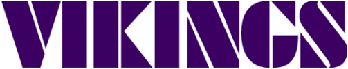 Minnesota Vikings wordmark from 1982 to 2003.